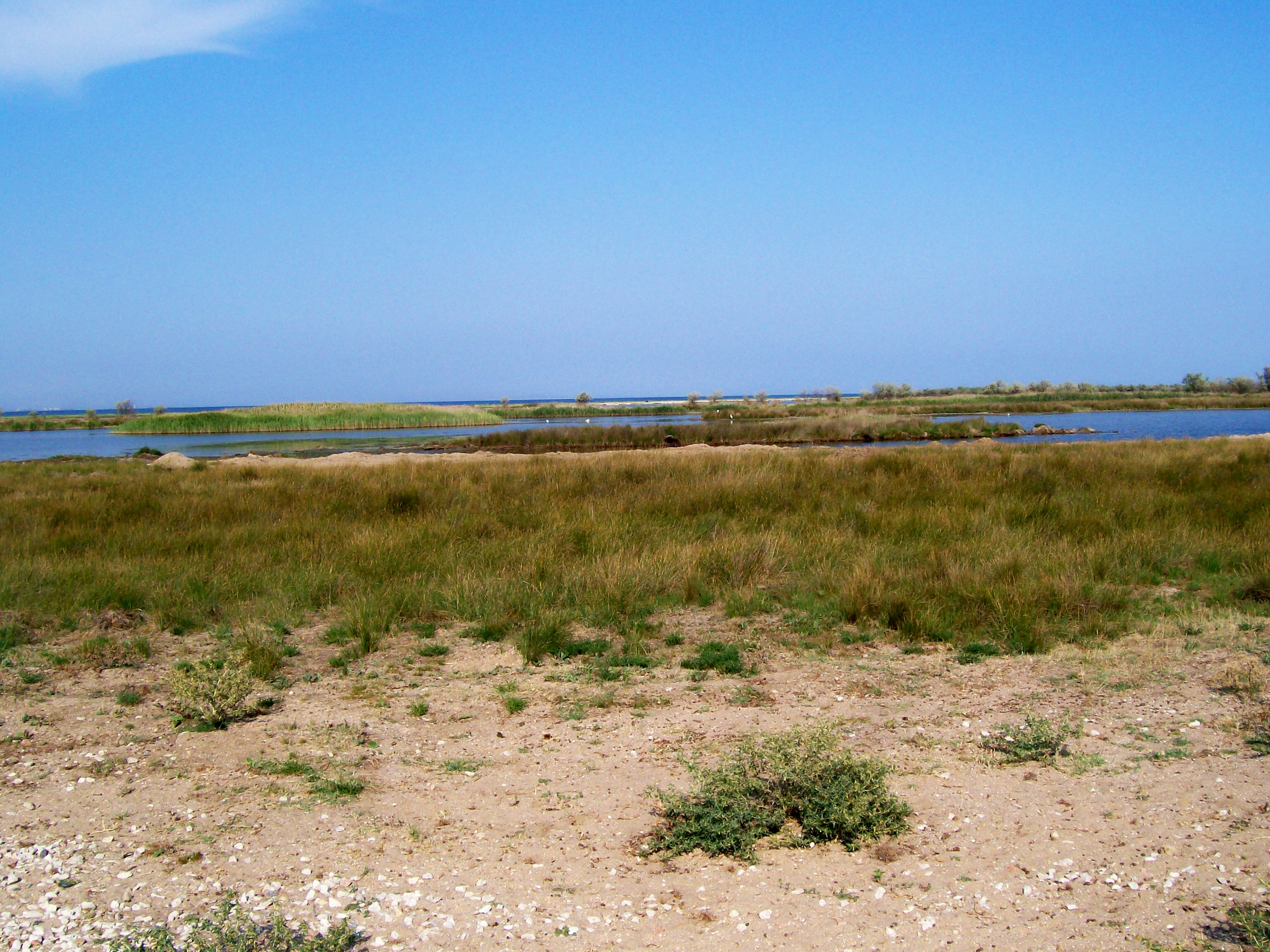 Tuzla Island, landscape, august 2007